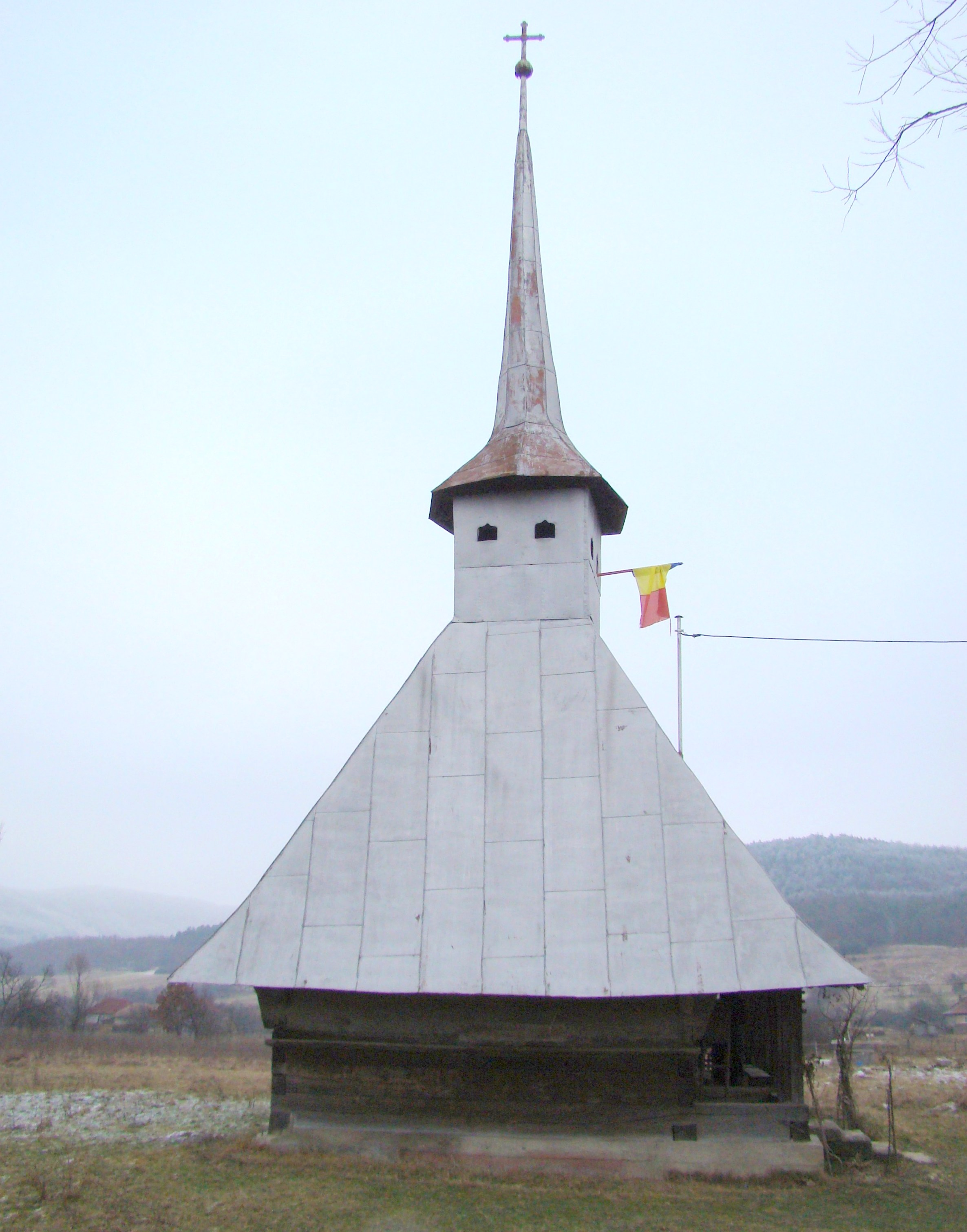 Wooden church in Romita, Sălaj